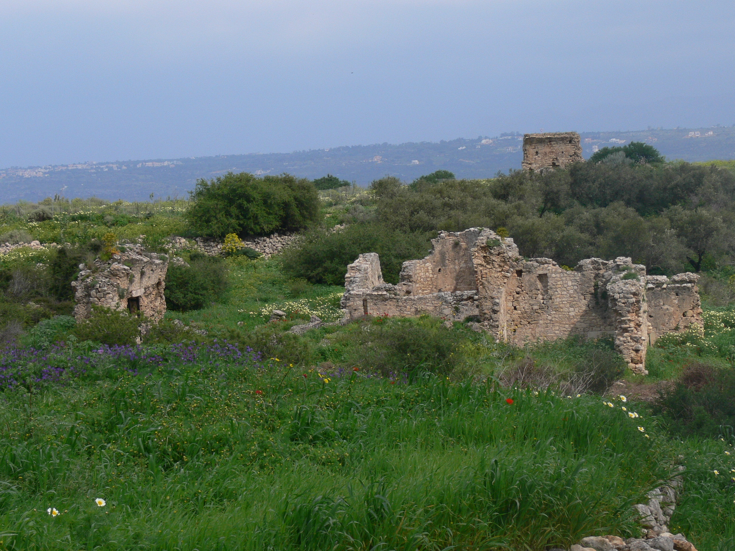 Aptera ( Crete ). Ruins of the ancient Roman thermae ( 3rd c. A.C. )